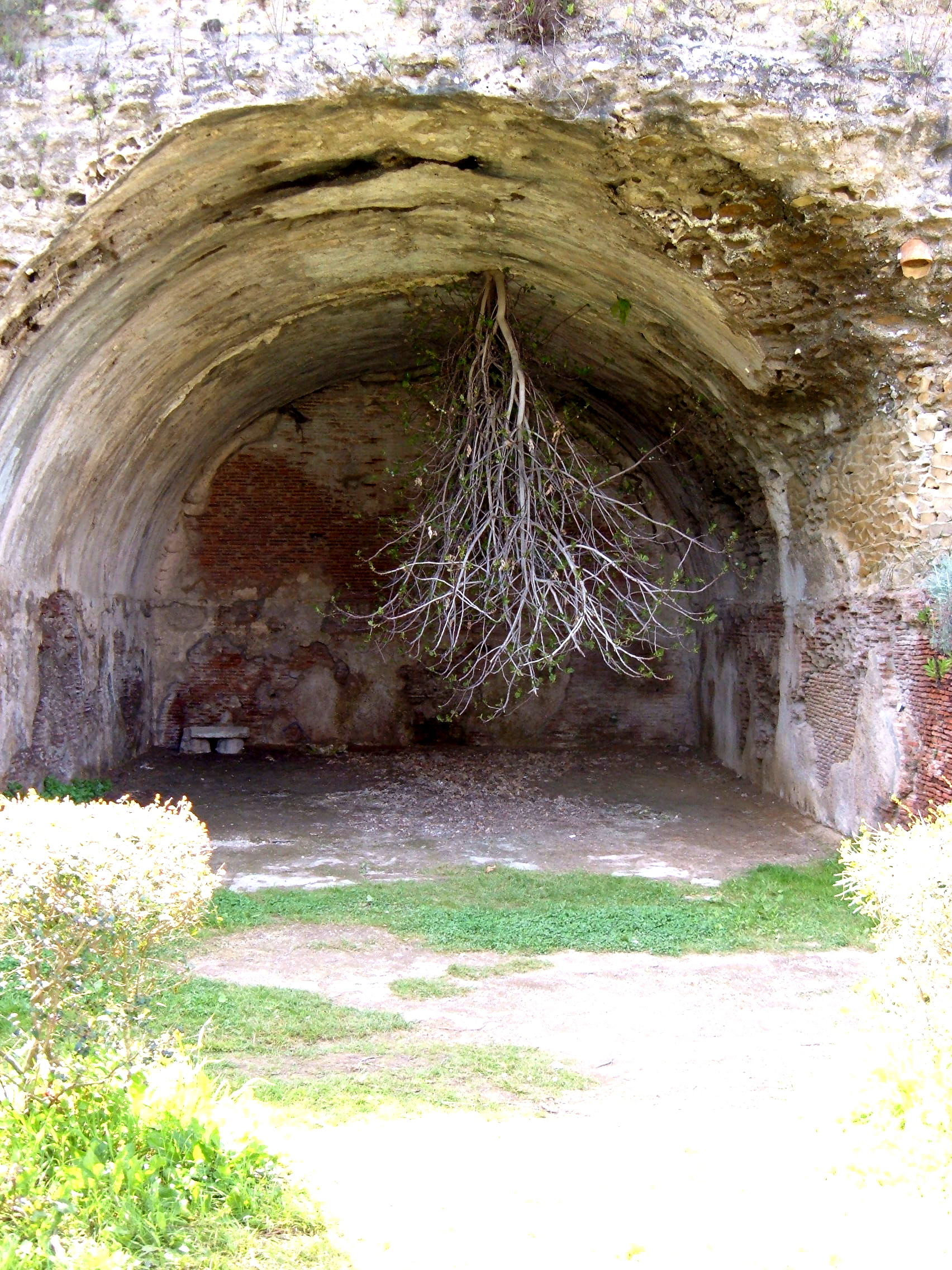 Room of a roman therm in Baiae.